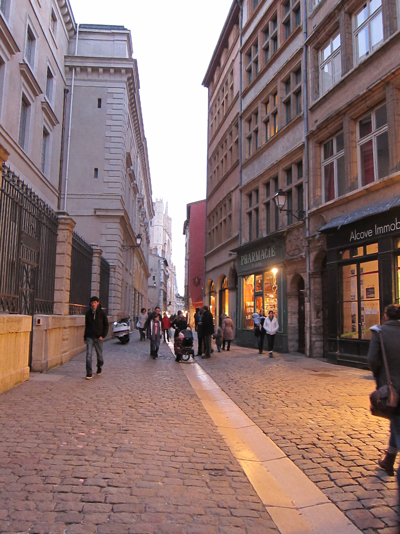 car-free street, "rue St-Jean", in Lyon, France